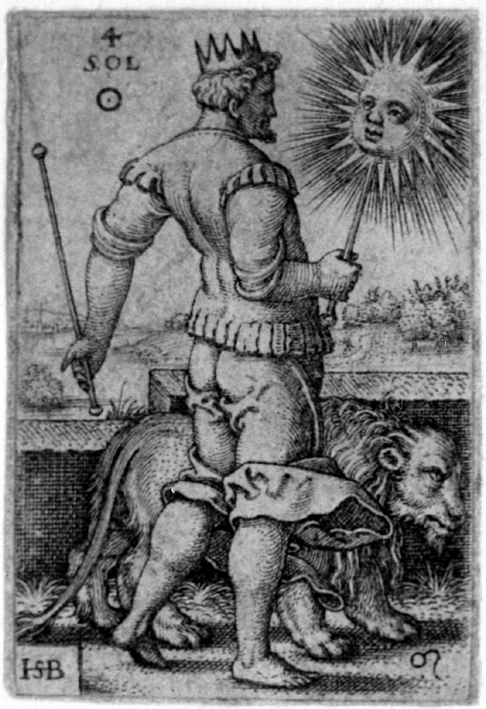 Beham, (Hans) Sebald (1500-1550): Sol, from The Seven Planets with the Signs of the Zodiac, 1539 (Bartsch 117; Pauli, Holl. 119), second state of five.